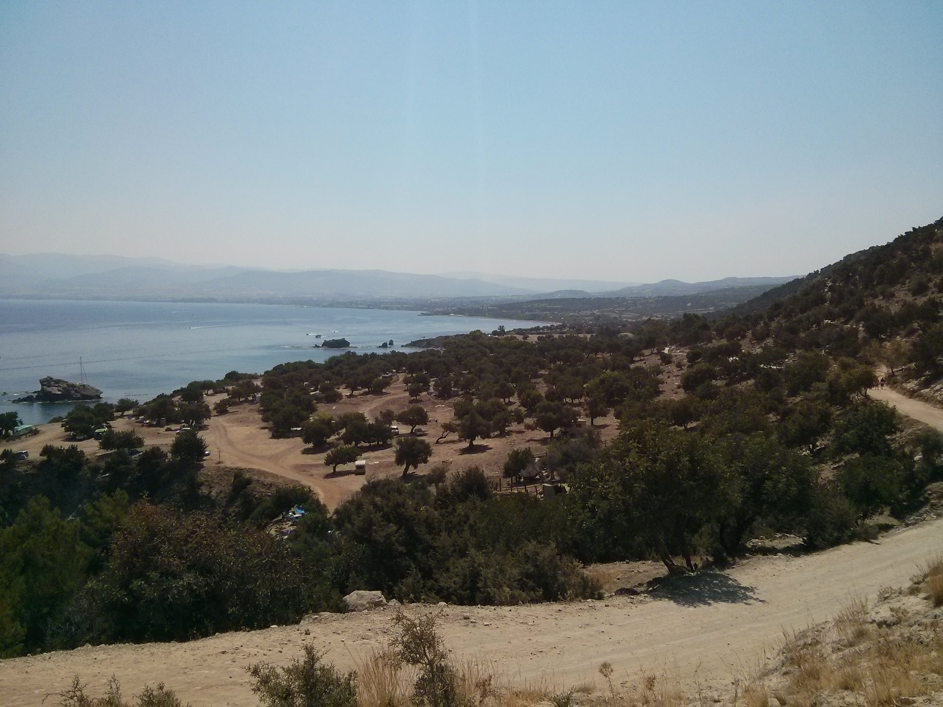 Aphrodite springs view